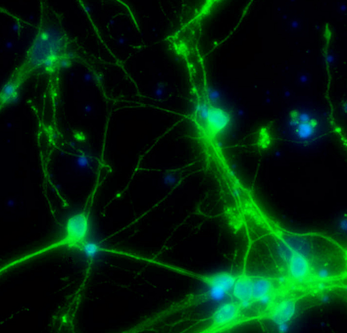 neurons